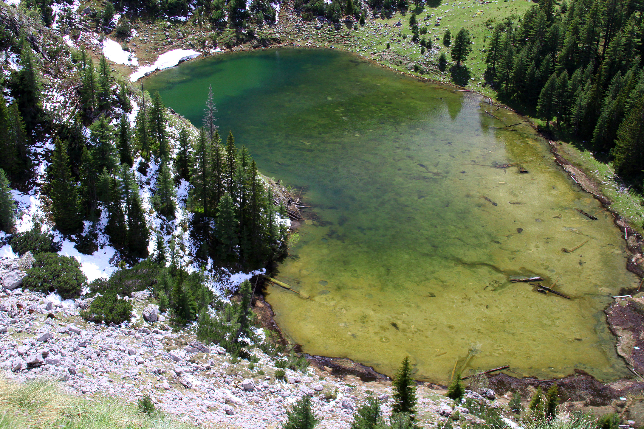 The bigger Liqenat lake known as Kuçishte lake in Rugova gorge